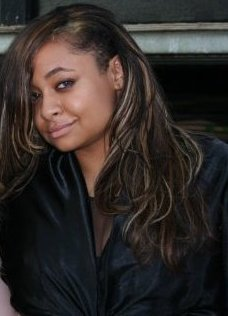 The singers Raven-Symoné and Lindee Link in 2010.